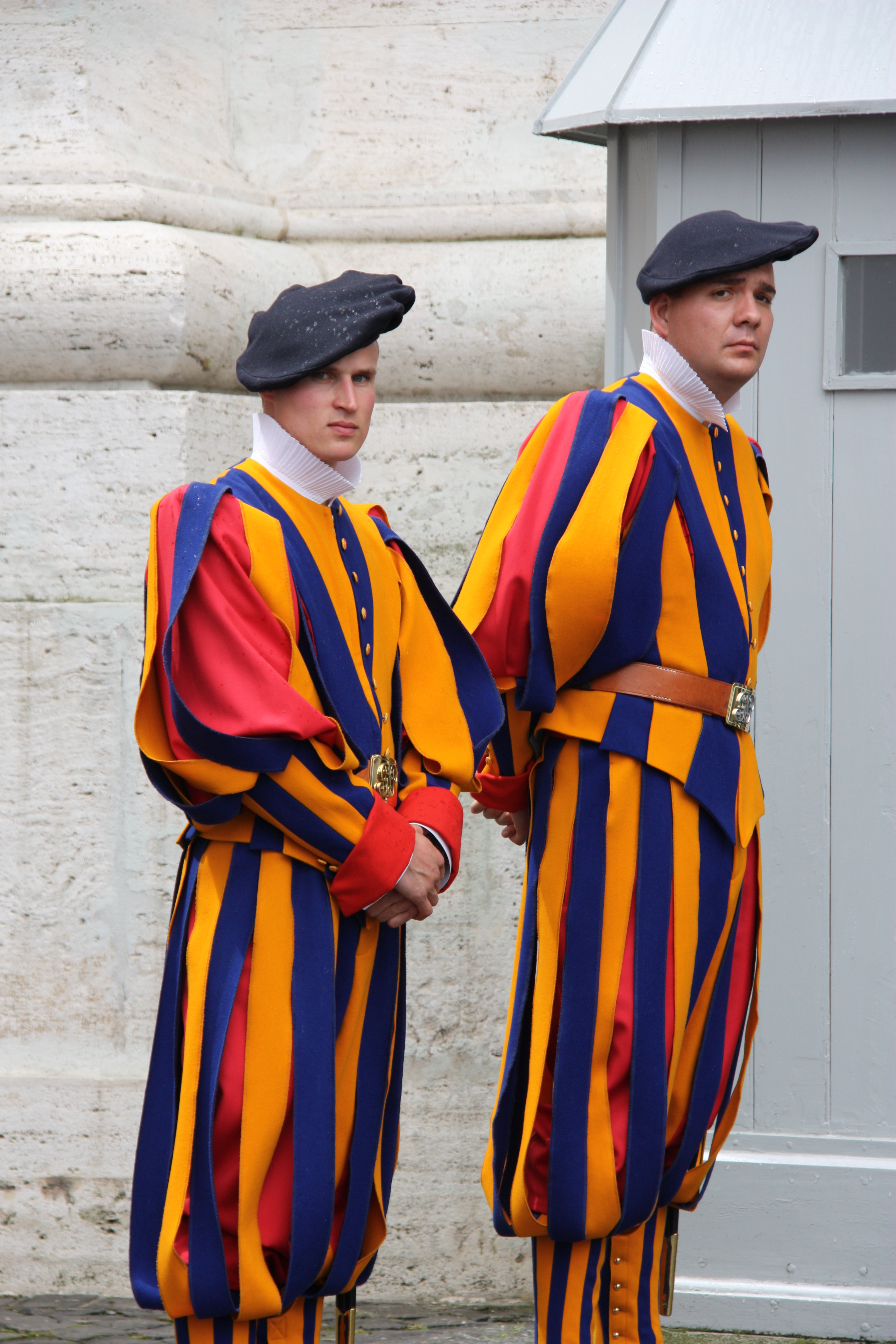 Swiss guards in the Vatican City, 2010